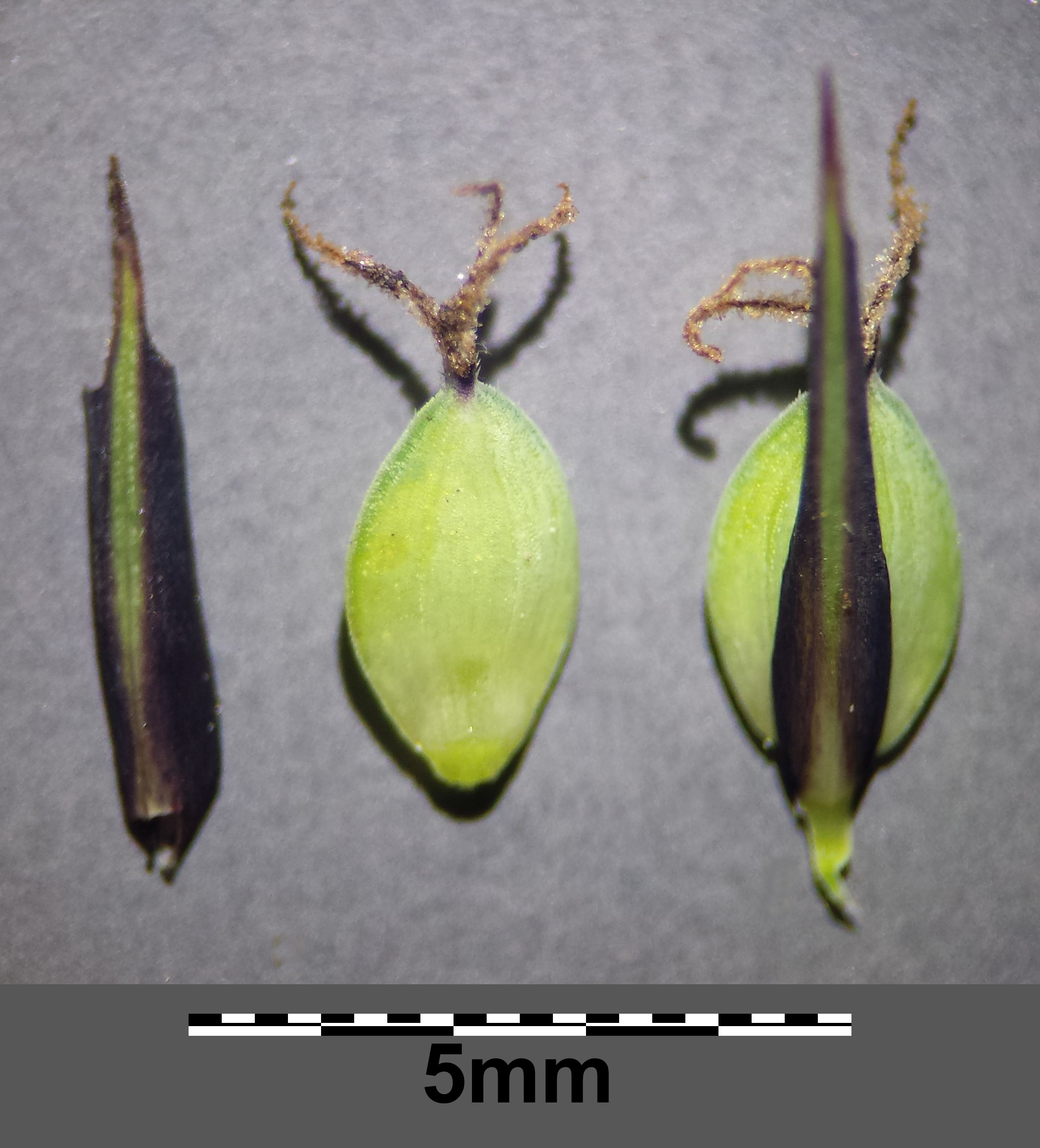 Glume and utricle Taxonym: Carex buxbaumii ss Fischer et al. EfÖLS 2008 ISBN 978-3-85474-187-9 Location: Mamauwiese near Puchberg am Schneeberg, district Wiener Neustadt, Lower Austria - ca. 950 m a.s.l. Habitat: meadows